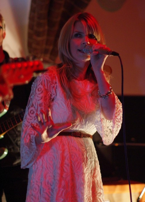 Ali Howard performing with Lucky Soul at Indie Pop Days at the Wasserturm Kreuzberg in Berlin, Germany.